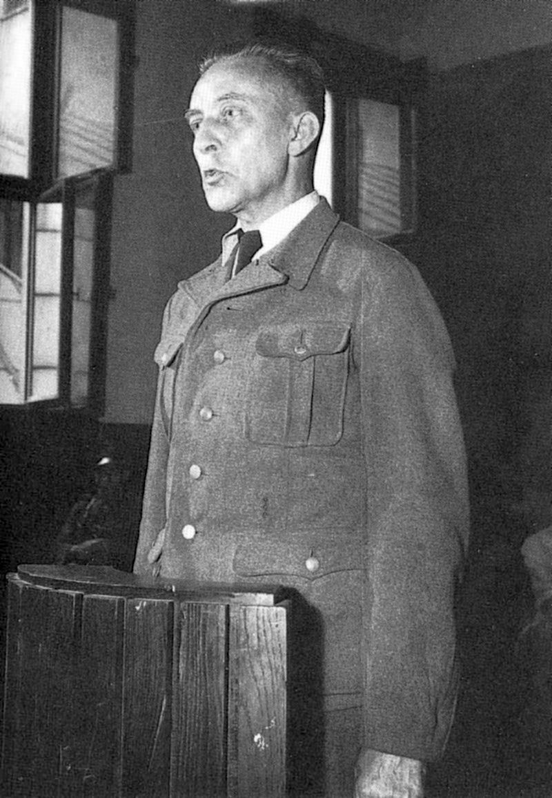 Defendant Juergen Stroop, the former SS general responsible for suppressing the Warsaw Ghetto uprising, in the witness box during his trial[1].